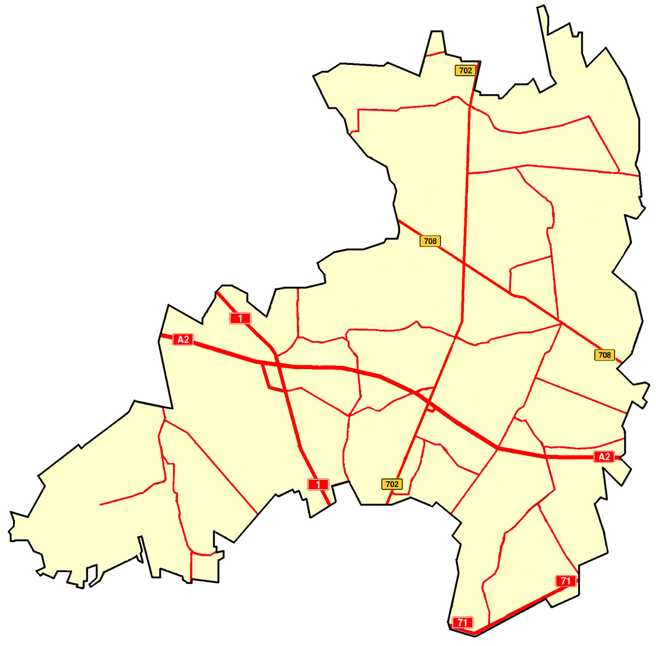 Roads in Zgierz Commune